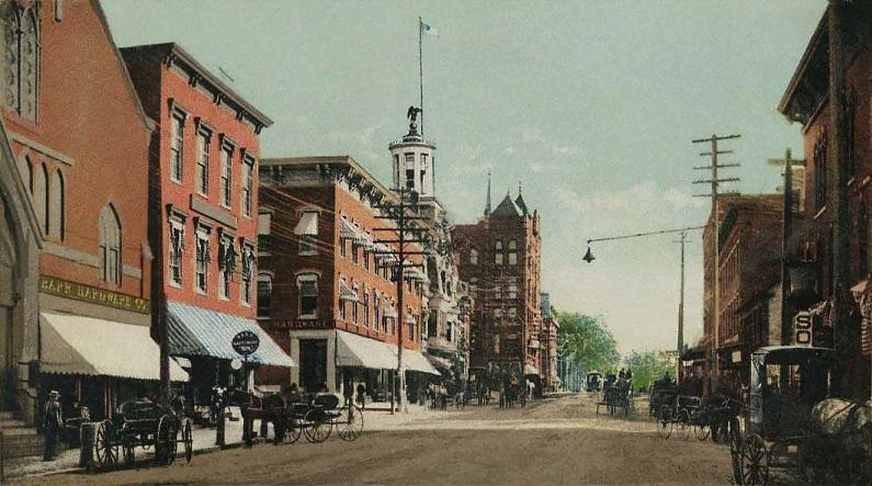 Main Street in Nashua, NH; from a c. 1905 postcard.